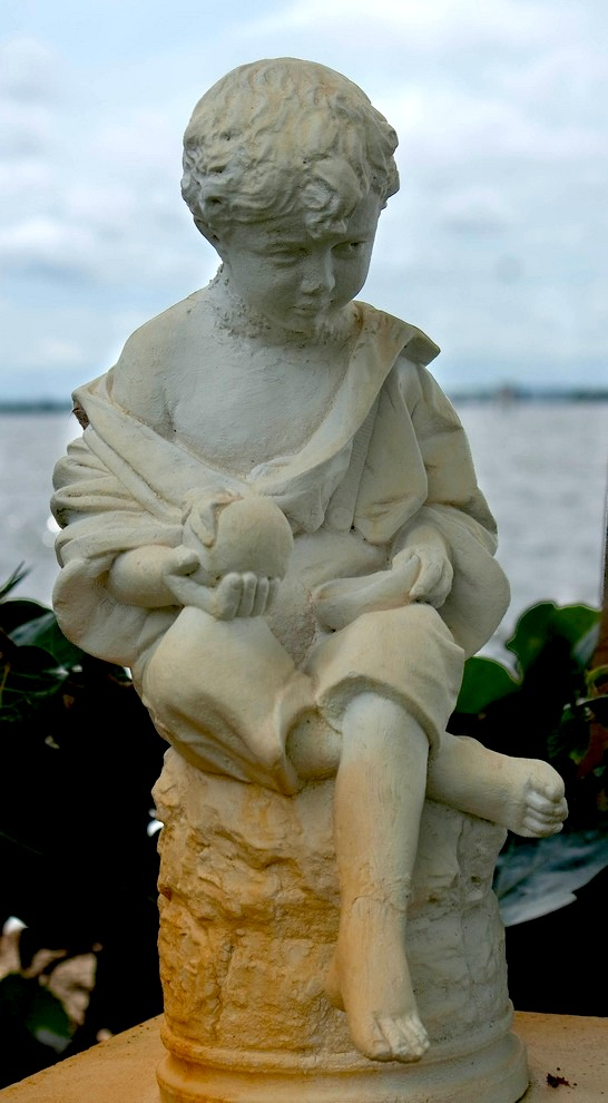 Deep Thought